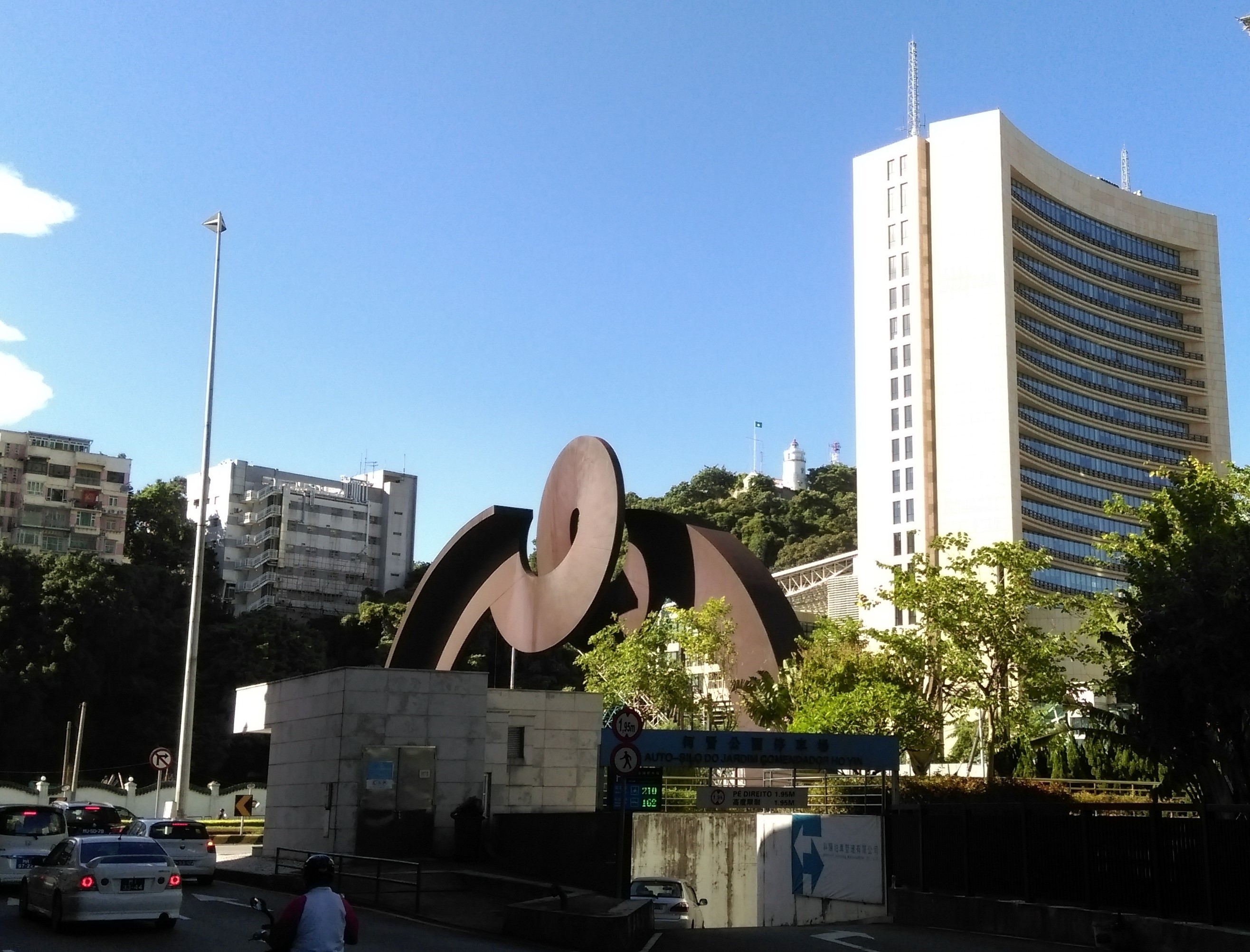 Picture of Guiana Fortress